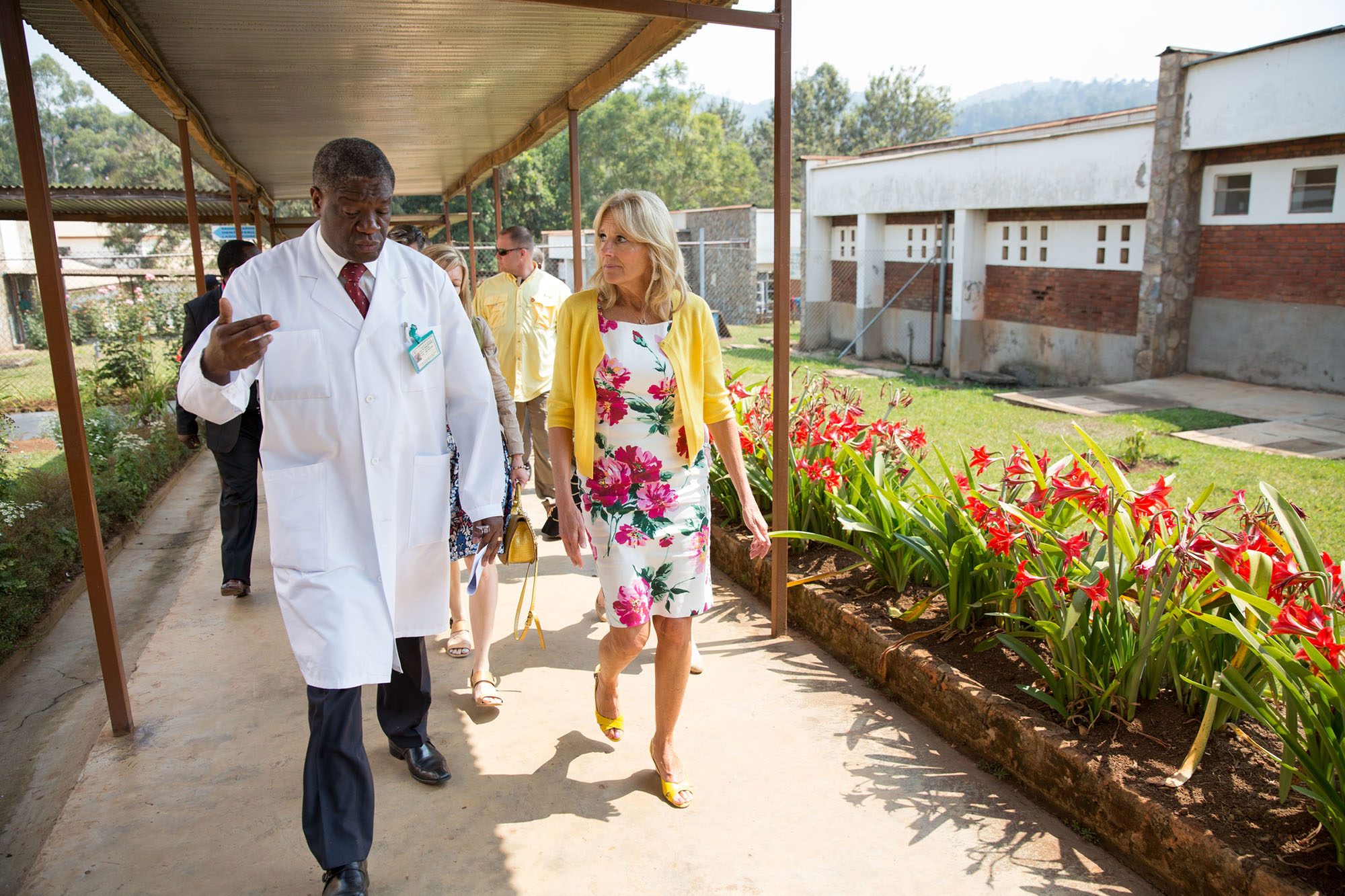 Dr. Jill Biden talks with Dr. Denis Mukwege, Physician and Medical Director at the Panzi Hospital, in Bukavu, Democratic Republic of Congo, July 5, 2014.